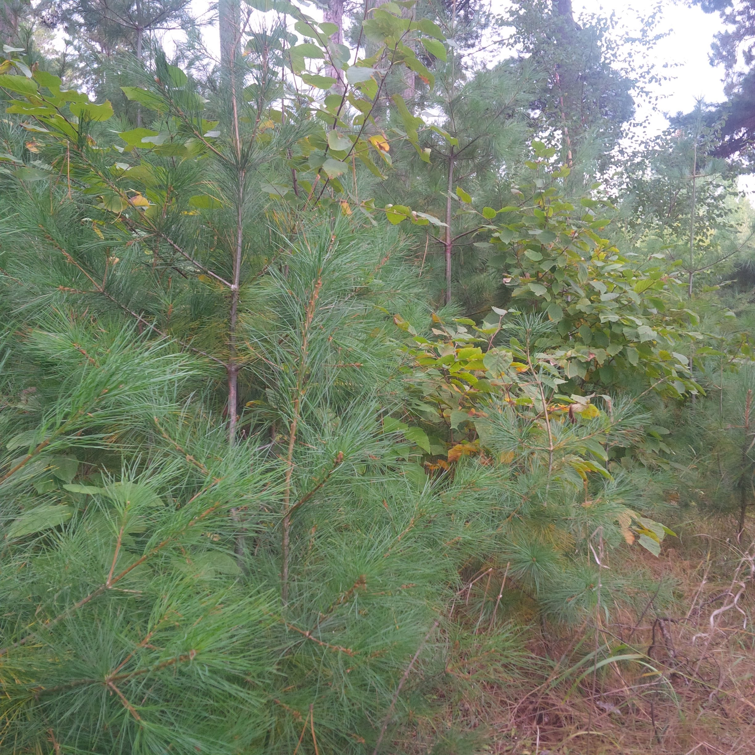 Young White Pine trees growing along the Rainy River